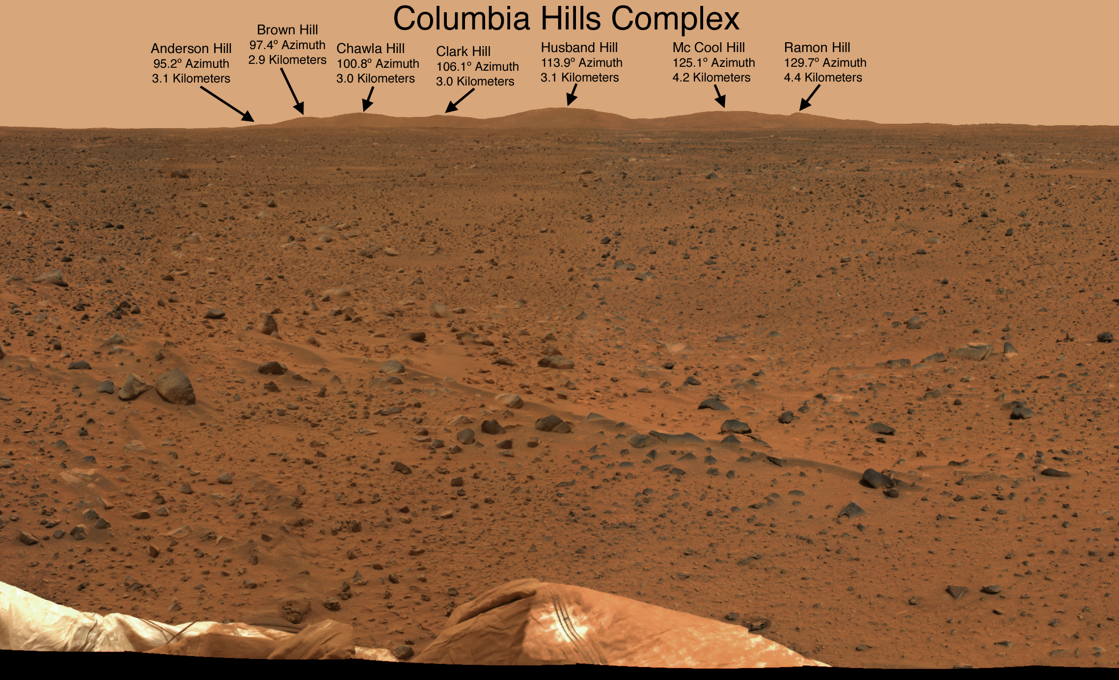 Category:Images of Mars